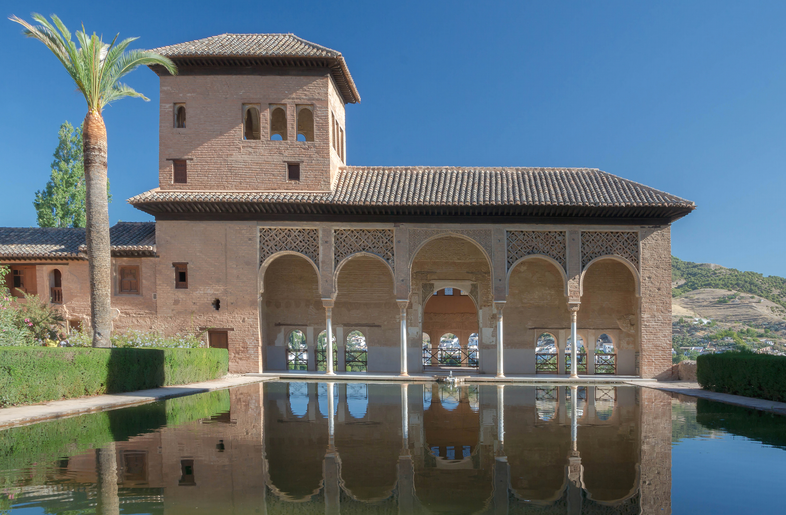 The Partal pavilion, Alhambra, Granada, Spain